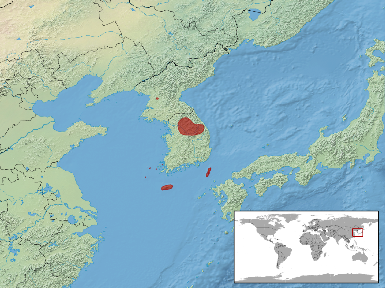 geographic distribution of Scincella vandenburghi